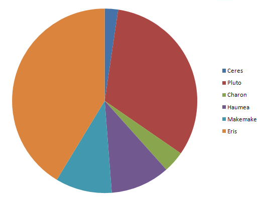 Relative masses of dwarf planets & Charon as of 2008